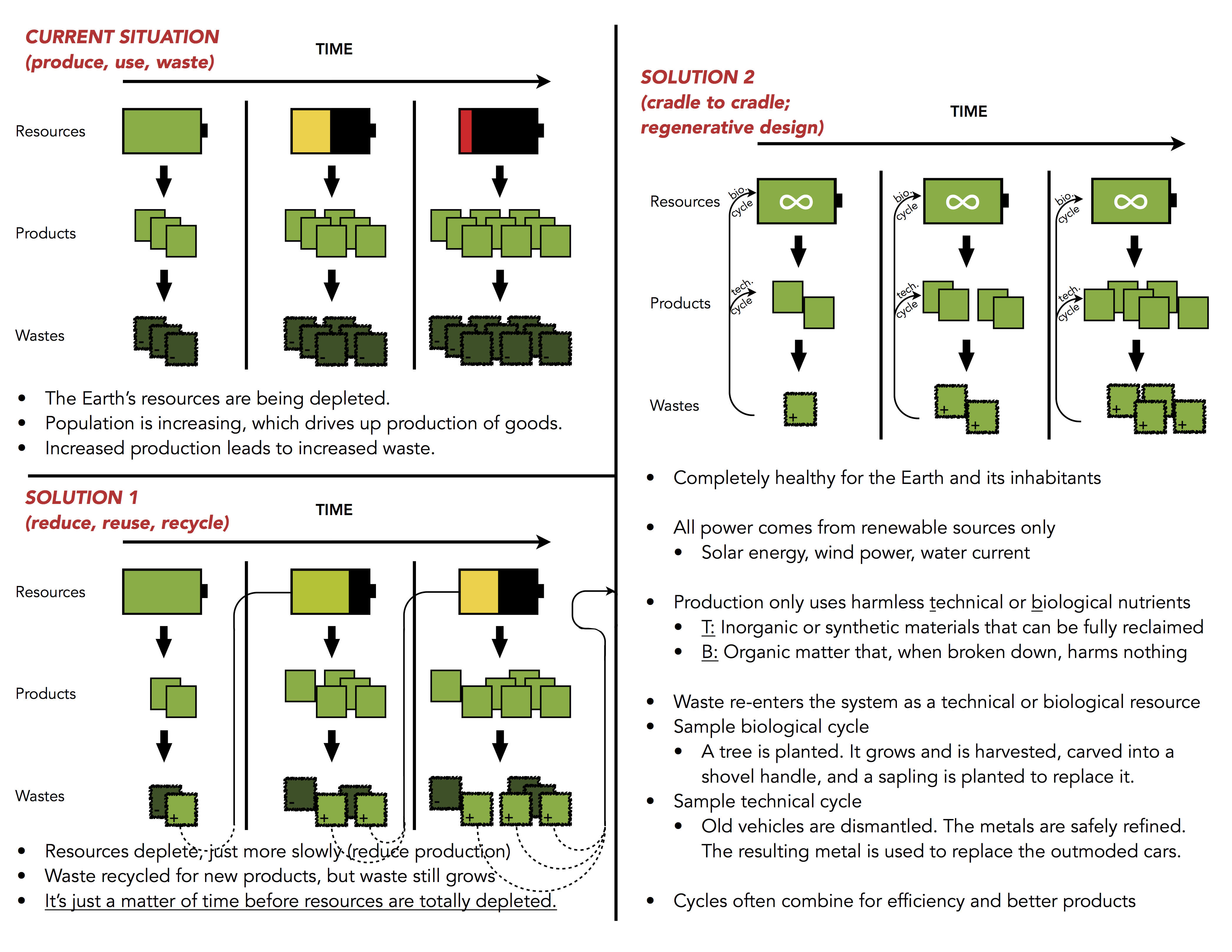 Revision and clarification of File:The_Change_in_Sustainability_Framework.jpg because original was unclear (in content and in resolution). Compares methods of promoting sustainability, such as cradle-to-cradle designs (also known as regenerative design) next to recycling as it stands today, along with the alternative to all this, simple waste with no reuse.